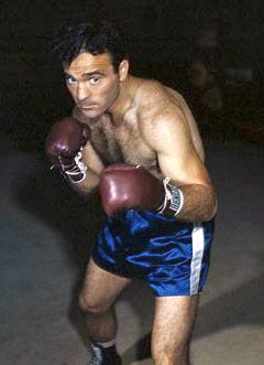 Portrait of Marcel Cerdan